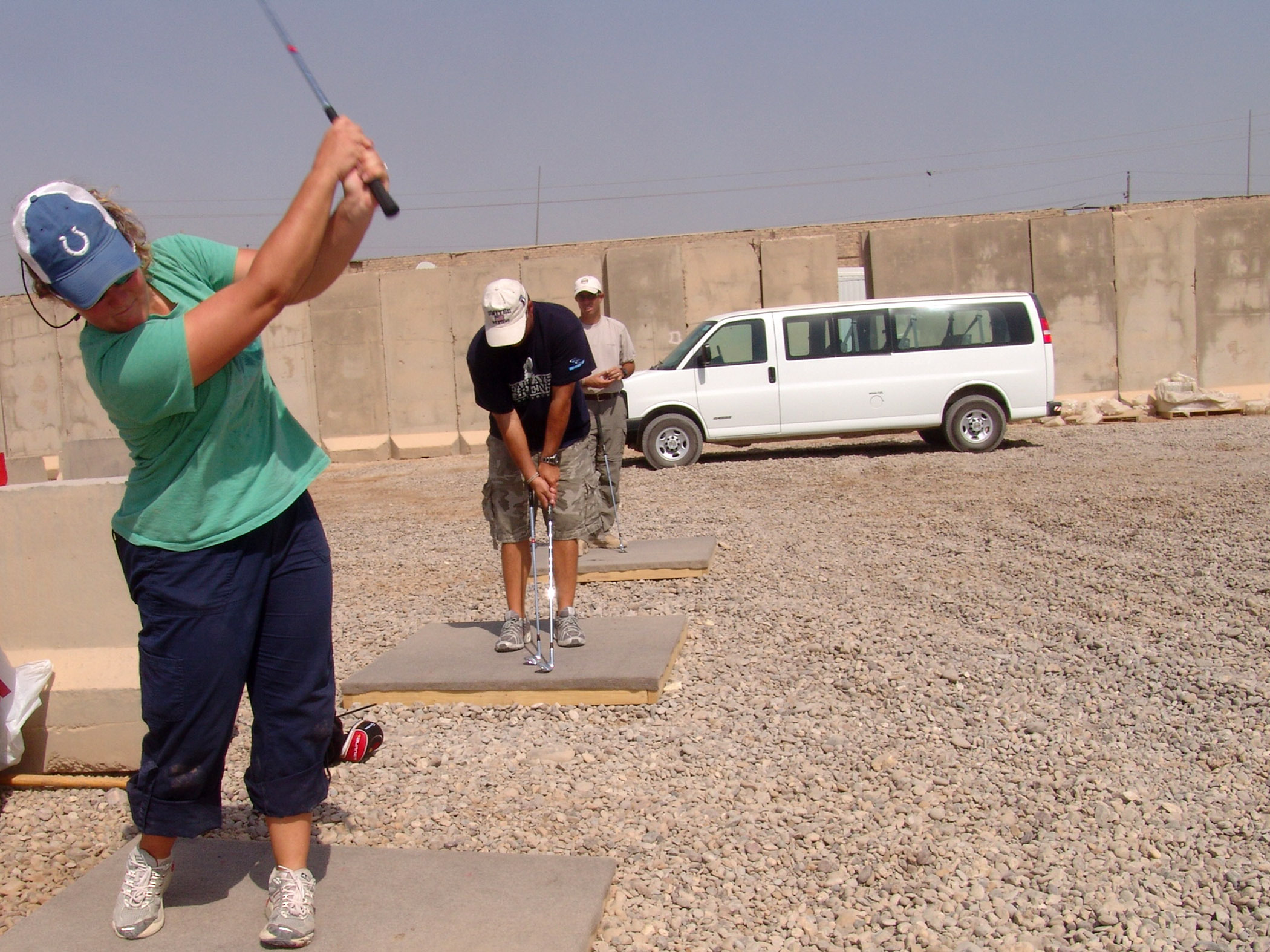 Golf pros, from left, Becky Lucidi, Carl Paulson and Mike Sposa show off their skills to Soldiers of the 30th Heavy Brigade Combat Team at Forward Operating Base Falcon, Iraq, Aug. 19. The three, along with LPGA golfer Jill McGill, visited the base as part of their "Fairways 2 Greens" tour in Iraq. "They should call it the 'bunkers to bunkers tour,'" said Paulson. The driving range is nearly 200 yards of gravel in a corner of the base. Unit: Multi-National Division Baghdad DVIDS Tags: game; sport; soldiers